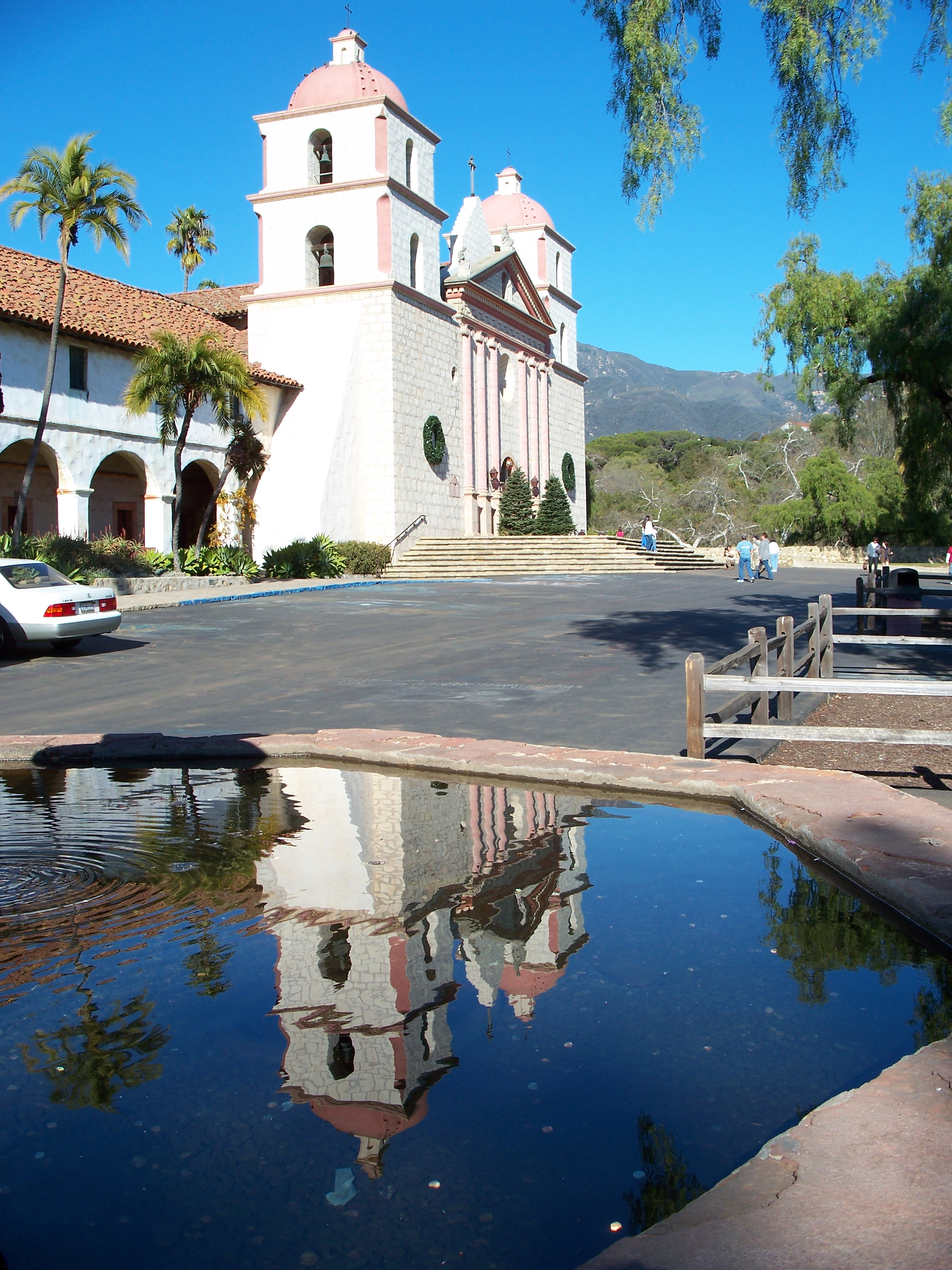 Reflection in fountain of chapel of Mission Santa Barbara. 2201 Laguna Street. Santa Barbara, California, USA